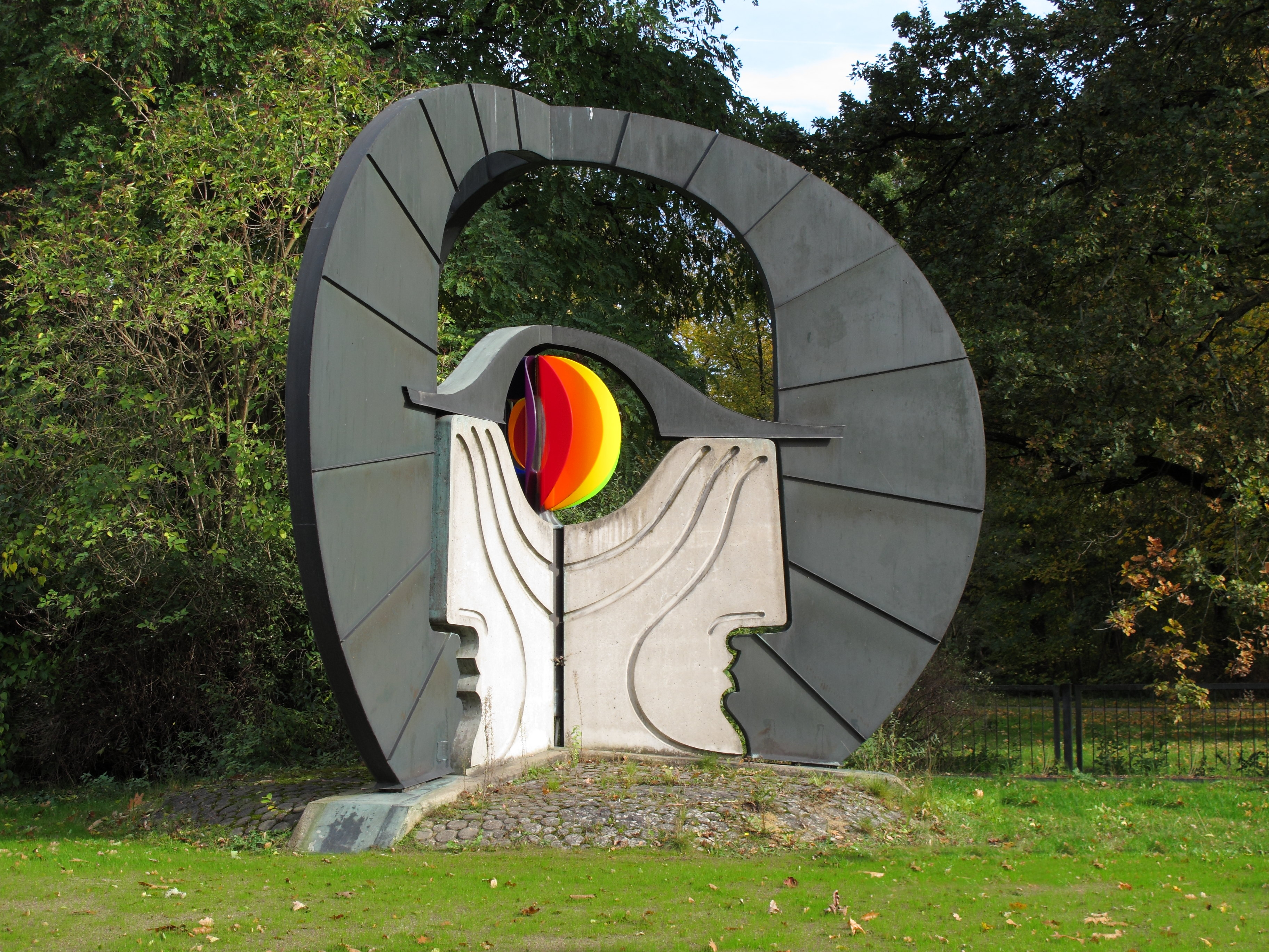 Braunschweig (Brunswick), Germany: the sclpture "Wächtergruppe" (group of guards) by German Artist Friedrich-Wilhelm Voswinkel, erected in 1982 next to PTB´s entrance.